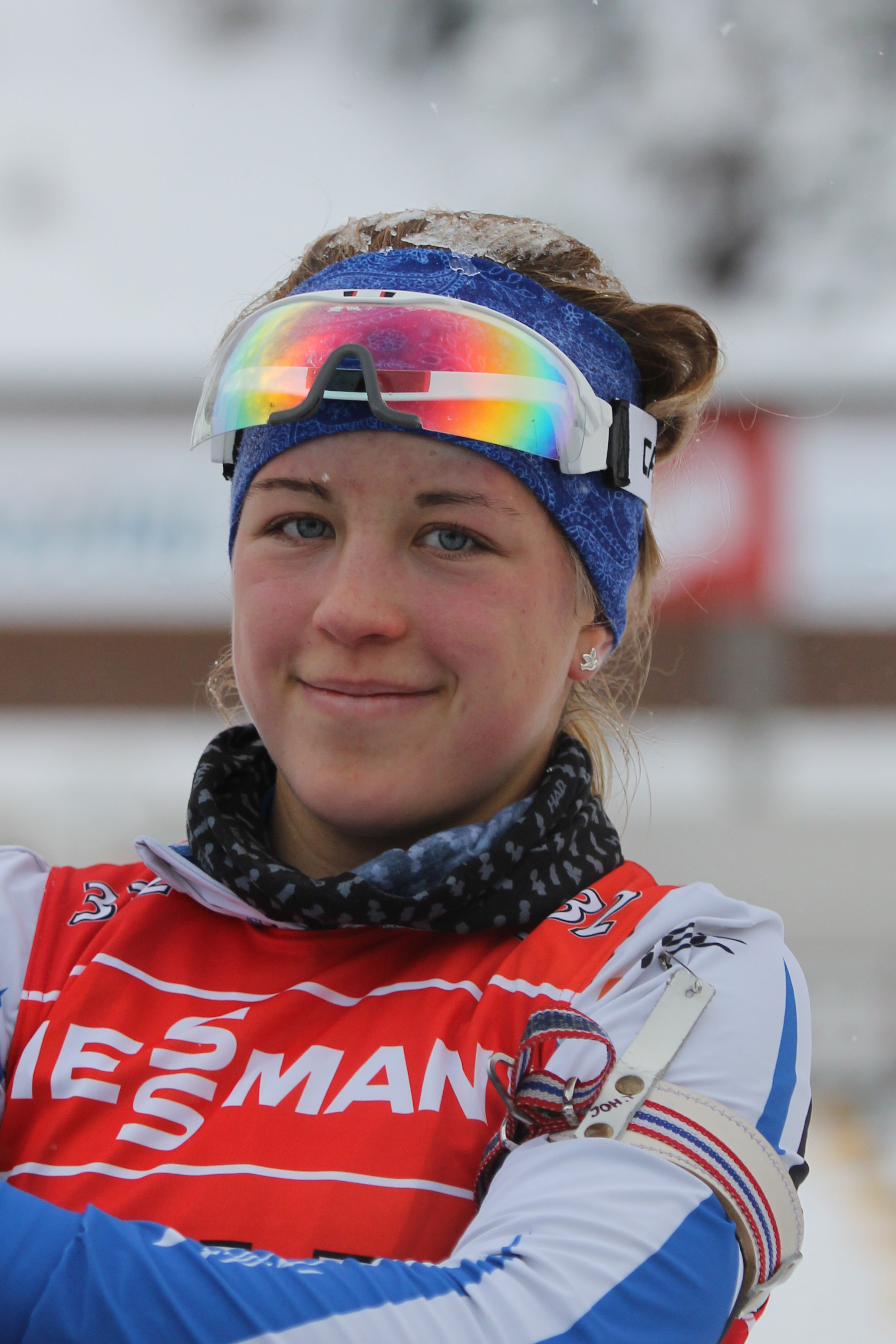 Joahnna Talihärm at Biathlon Worldcup in Hochfilzen 2012